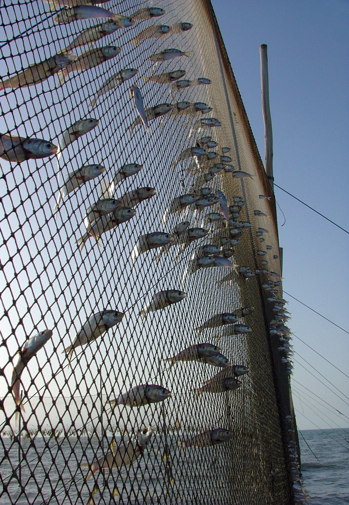 Traditional fishing gear in the Persian Gulf, since the 1800s, with set nets (fixed stake net trap), called moshta in Iran and hadrah in Kuwait.